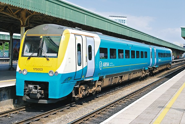 Alstom (Birmingham) Class 175/0 "Corradia 1000" 2-car dmu No.175 003 of Arriva Trains Wales in their standard livery at Cardiff Central on a Cheltenham - Maesteg service, 05/09.